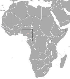 Bioko Forest Shrew (Sylvisorex isabellae) range